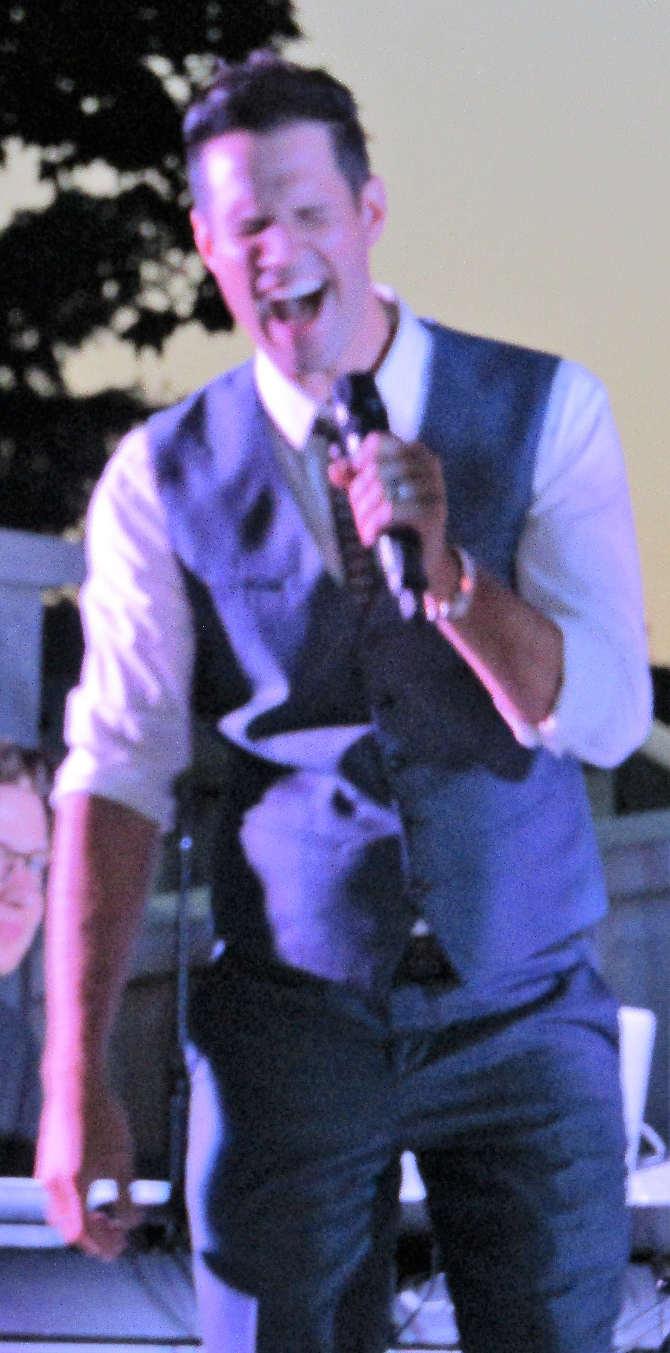 David Osmond performing at City Center Park during Orem Summerfest.